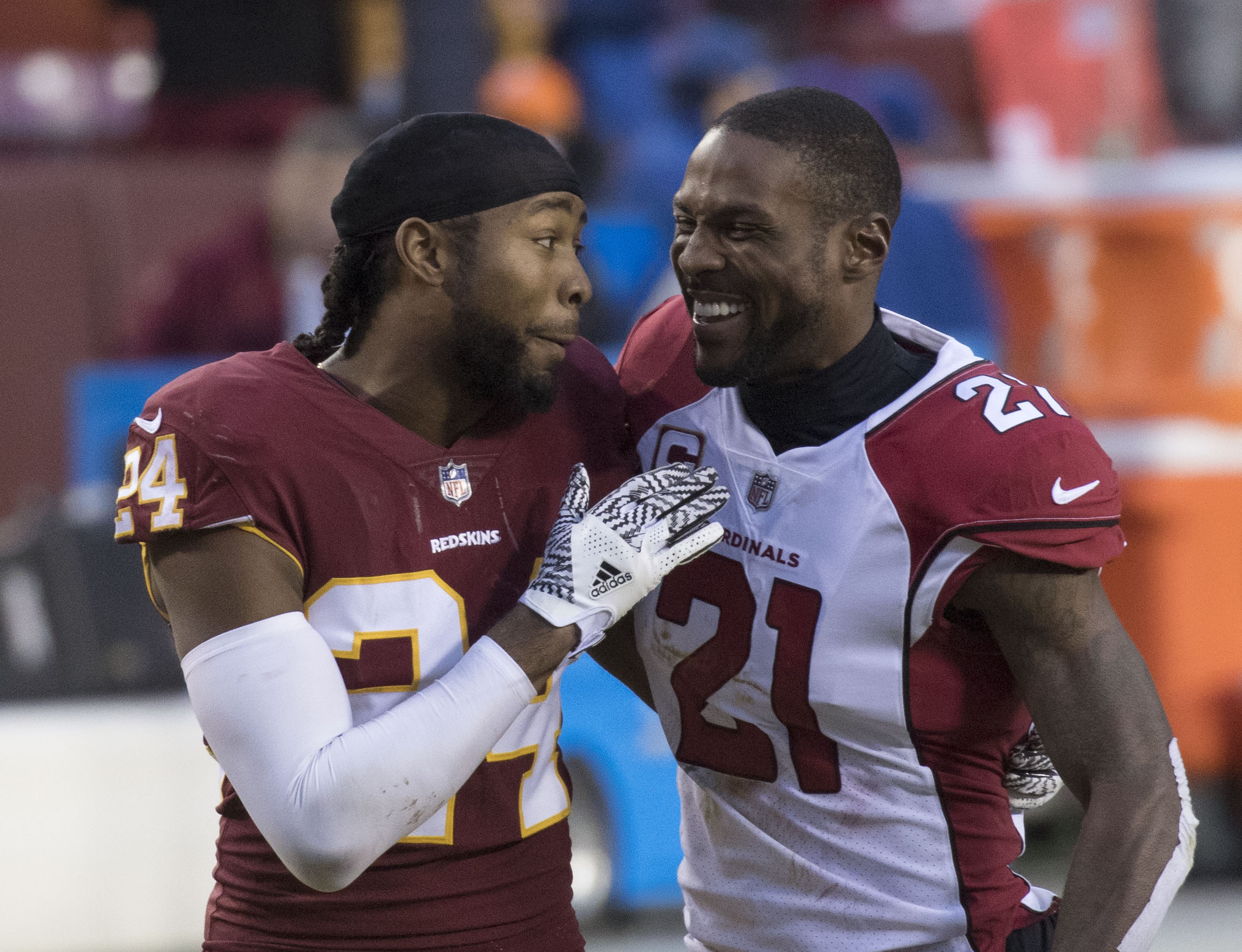 Cardinals at Redskins 12/17/17